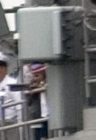 Cropped version focuses on sidekick ECM antenna.Source image description:A port bow view of the US Navy (USN) Oliver Hazard Perry Class Guided Missile Frigate, USS FORD (FFG 54), showing Sailors manning the rails, as the ship returns to its home port at Naval Station (NS) Everett, Washington (WA), following a six-month deployment to South America where it conducted various anti-drug operations.Location: NAVAL STATION, EVERETT, WASHINGTON (WA) UNITED STATES OF AMERICA (USA)